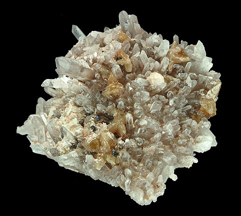 Monazite-(Ce) Locality: Siglo Veinte Mine (Siglo XX Mine; Llallagua Mine; Catavi), Llallagua, Rafael Bustillo Province, Potosí Department, Bolivia (Locality at ) Size: 4.4 x 3.6 x 2.3 cm. Monazite gets its name from the Greek word "monazein", which means "to be alone", in allusion to its isolated crystals and their rarity when first found. Monazite is usually found in granitic pegmatites, but these crystals are found in hydrothermal tin veins where is an absolute absence of Thorium (usually a trace element in Monazite). This is a remarkable, very well crystallized, very rare, specimen consisting of sharp, lustrous, translucent, orange-pink, twinned crystals on Monazite-(Ce) measuring up to 7 mm on Quartz crystals on matrix. The crystals actually perform a color change in different lighting ranging from orange-pink to a white/yellow depending upon the light source. This piece is from the same mine for which this material was discovered along the Contacto and San Jose veins in this mine and was first described by Sam Gordon and Mark Bandy.